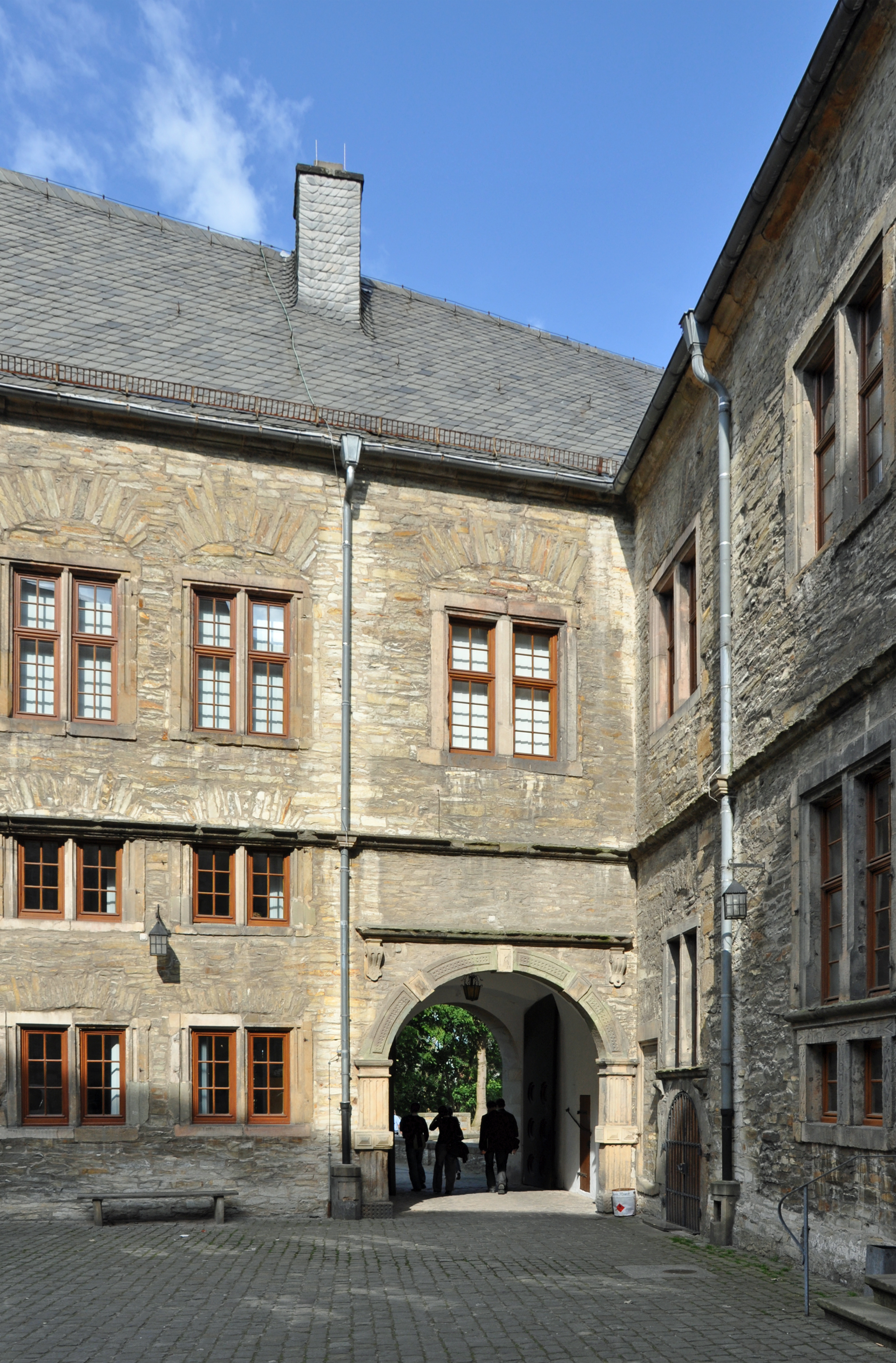 Büren (Germany): castle Wewelsburg, inner court